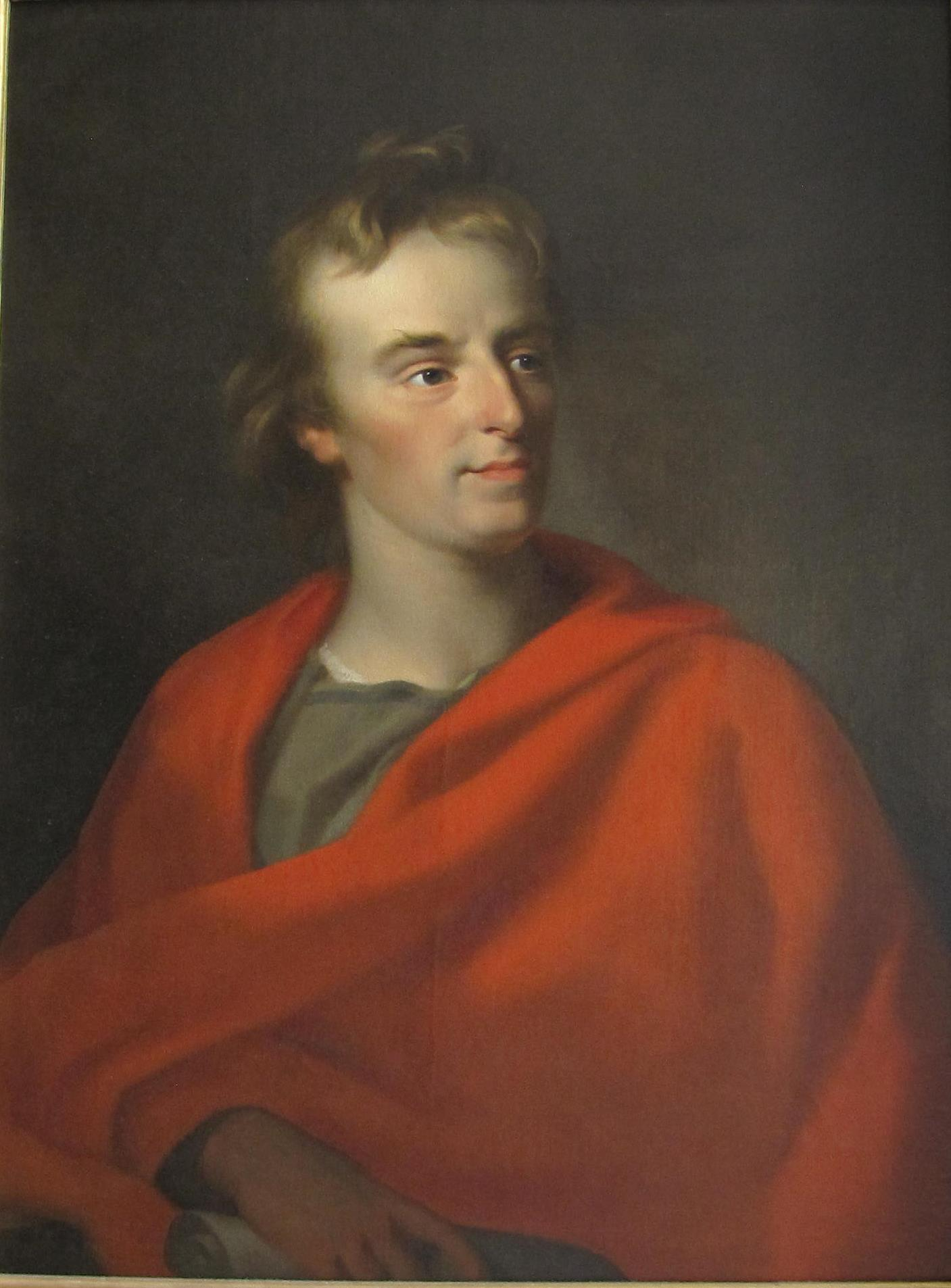 Interior of Anna-Amalia-Bibliothek in Weimar; Friedrich Schiller by Johann Friedrich August Tischbein, 1805/06